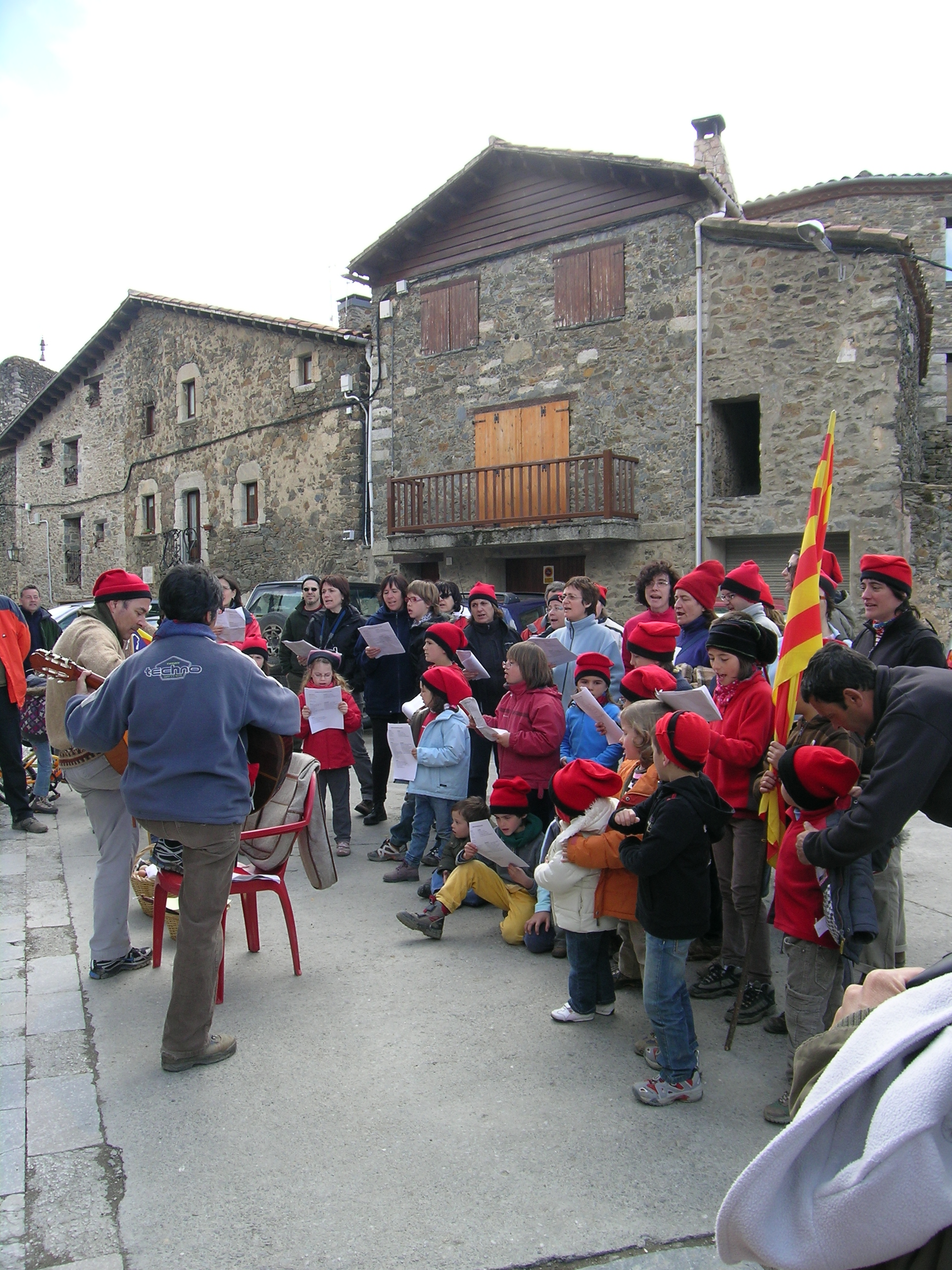 "Pasqüetes" and "Caramelles" in Pardines (Ripollès) 4/4/2010 13h 4mn - Popular and traditional Day.